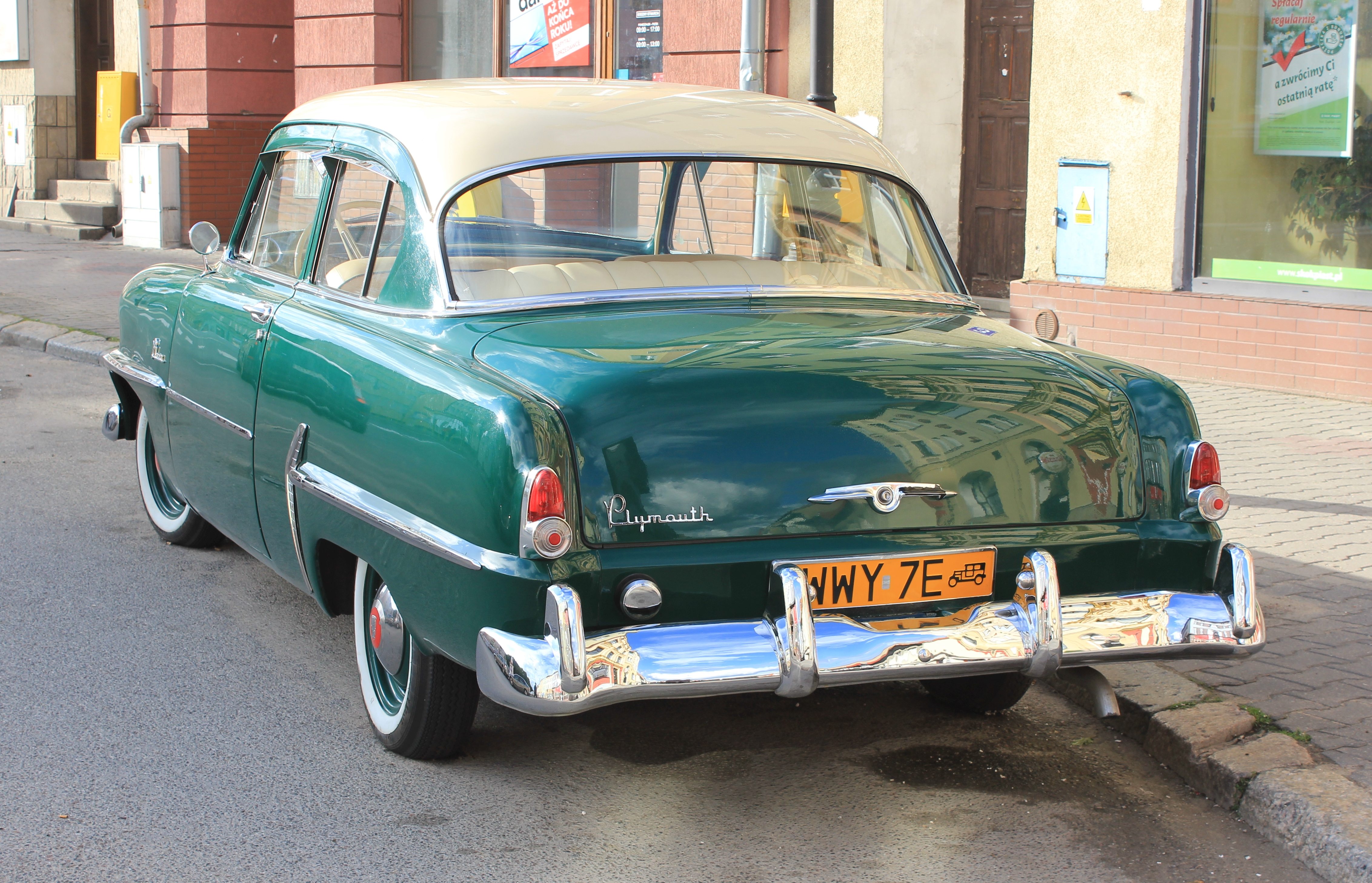 Bartoszyce - Plymouth Plaza